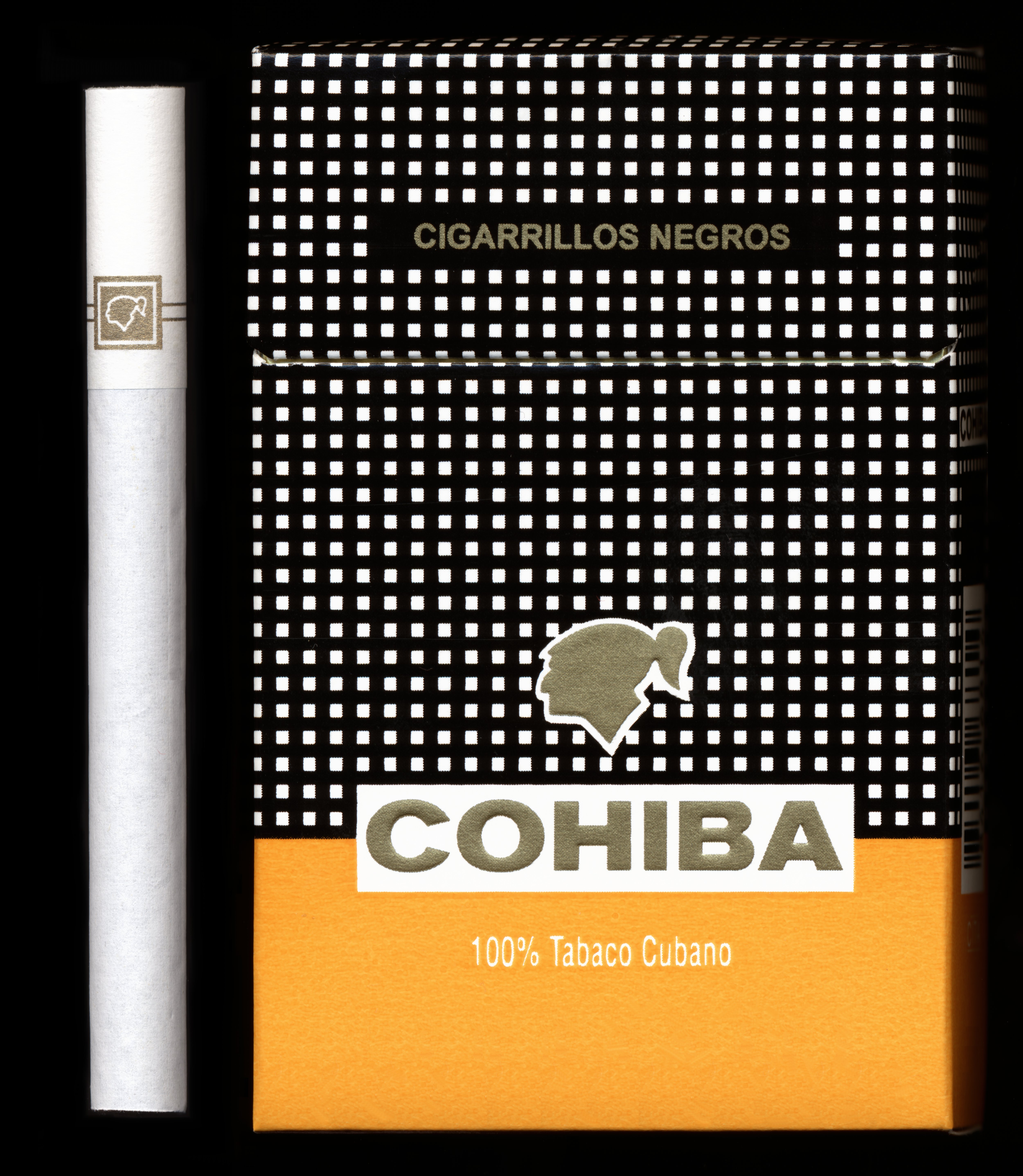 Cohiba Cigarette and Box, county specific printings removed, Scan by Jorin, Scan of empty box and cigarette with 600dpi